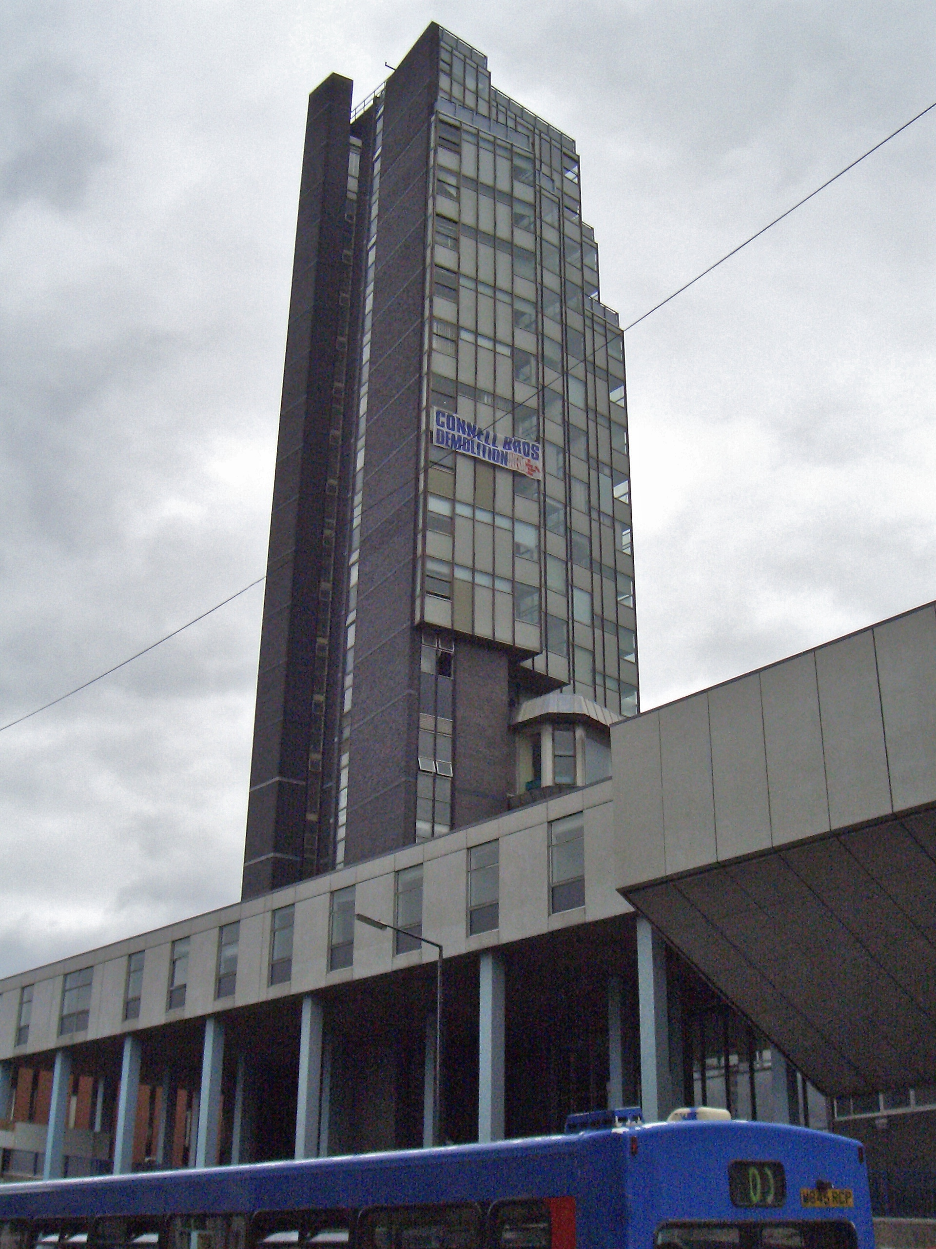 The old Maths Tower at the University of Manchester, Manchester, United Kingdom. Shortly after this photo was taken, it was demolished (Note the demolition company's banner half way up the building); its' occupants having moved into temporary accommodation prior to the completion of the Alan Turing Building.